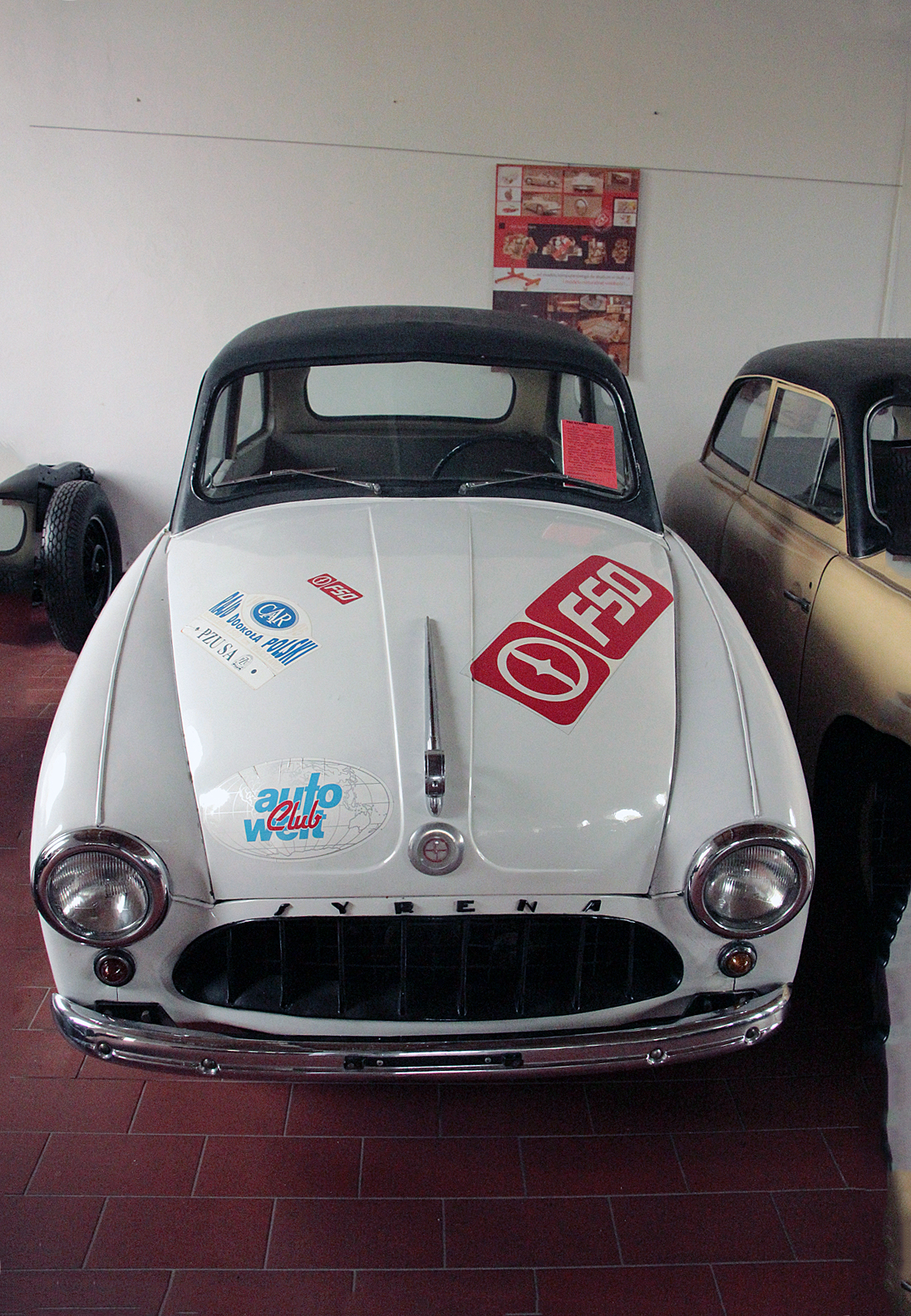 This photo was taken during Automotive Wikiexpedition 2016 set up by Wikimedia Polska Association. You can see all photographs in category Wikiekspedycja motoryzacyjna 2016. English | Polski | +/−